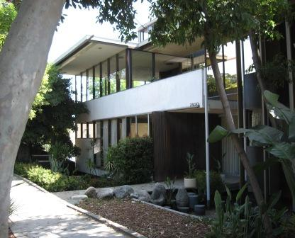 Neutra VDL II House, 2300 Silver Lake Boulevard, Los Angeles, California